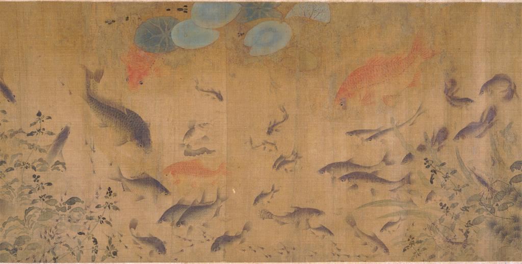 Painting of goldfish and other types of carp. Cropped from a Song dynasty handscroll attributed to Liu Cai (c.1080–1120).